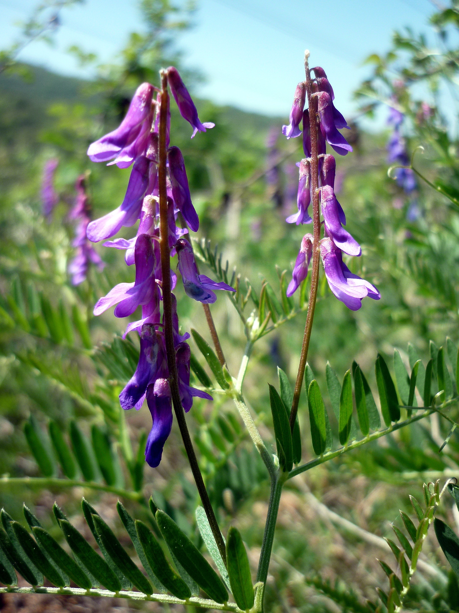 Vicia cracca. In Torà (Segarra - Catalunya). To 530 m. altitude